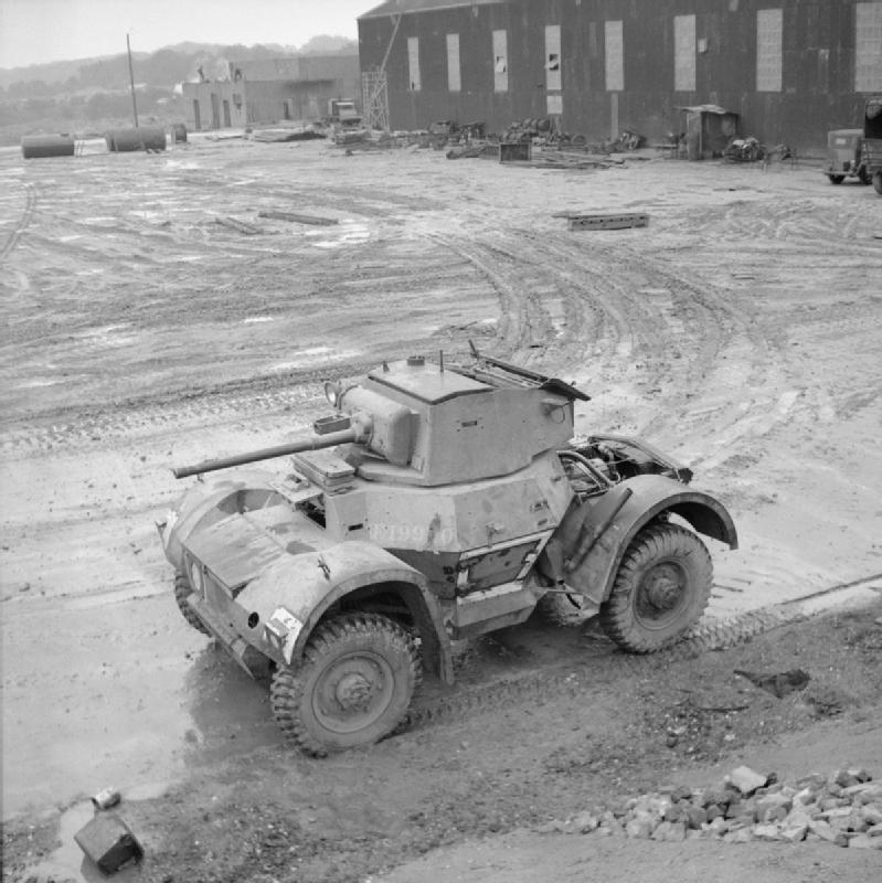 The British Army in the United Kingdom 1939-45 Daimler Mk I armoured car